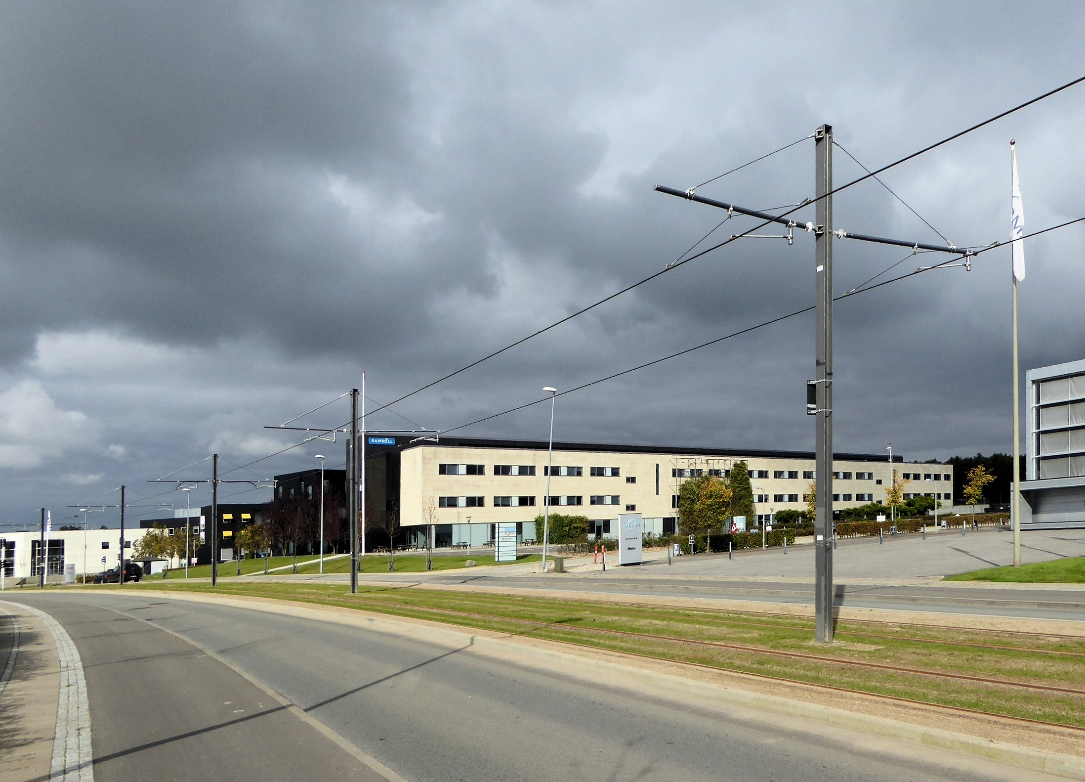 Tram tracks of Aarhus Letbane on Olof Palmes Allé in Aarhus in Denmark.